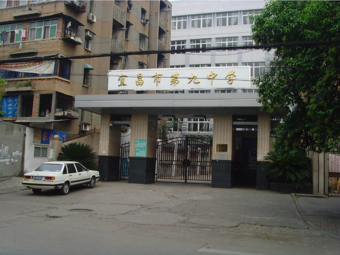 This is the gate of Yichang No9 middle shool,shot on July 30 2011